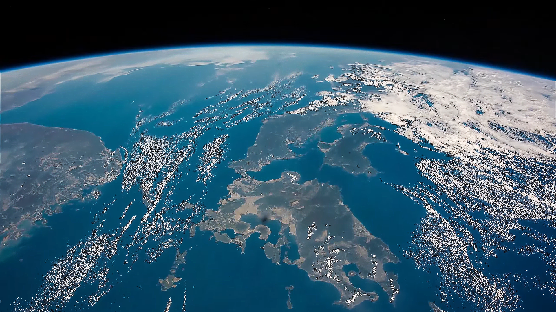 Kyushu, Japan, seen from the International Space Station (17 October 2015)